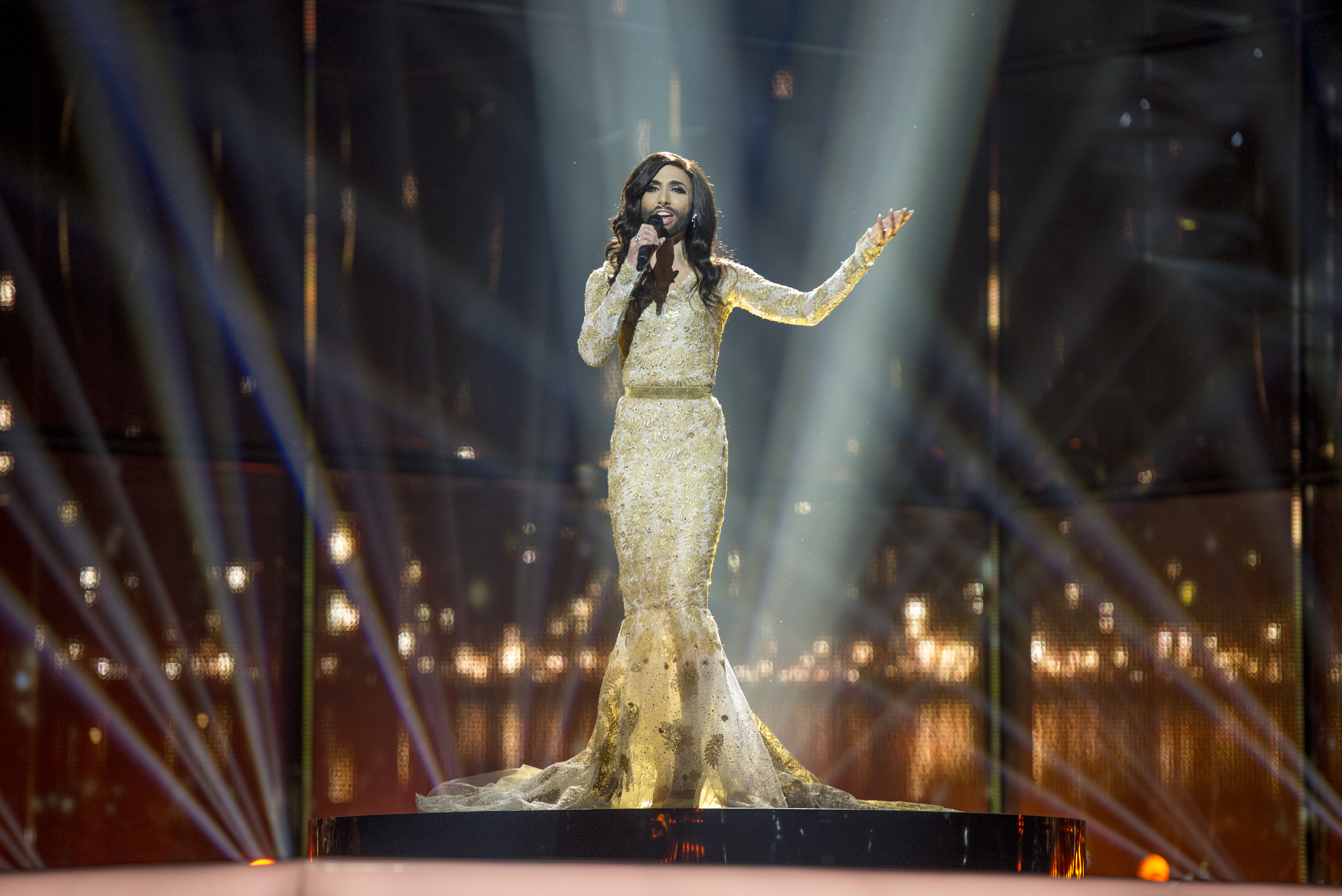 Conchita Wurst representing Austria with the song "Rise Like a Phoenix" during the first dress rehearsal of the second semi final of the Eurovision Song Contest 2014 Copenhagen. (Help translate this text)